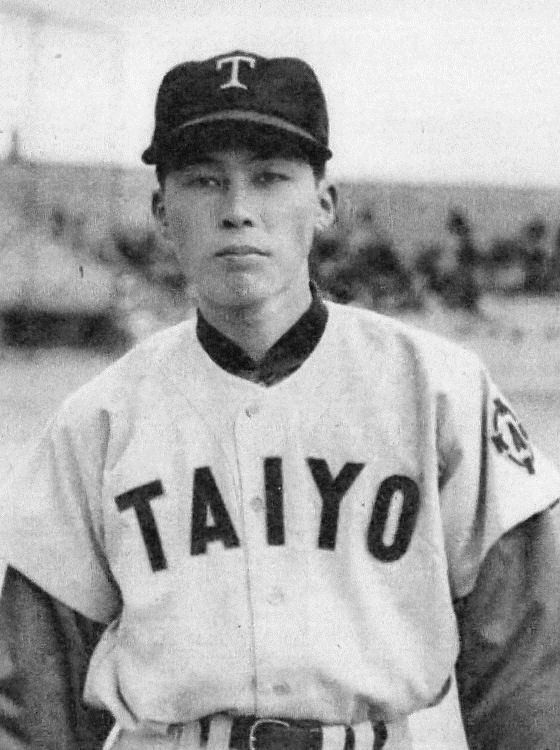 Noboru Akiyama